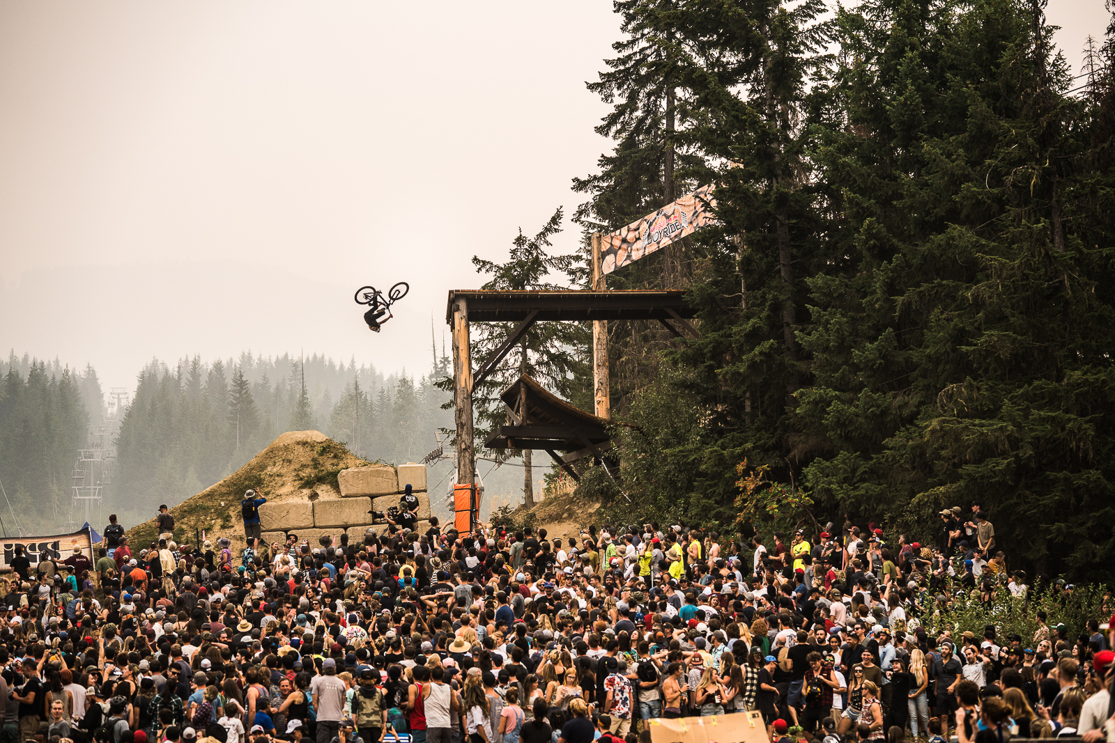 The start ramp of one of Crankworx Whistler's events, the Red Bull Joyride in 2018. Photo by Kike Abelleira